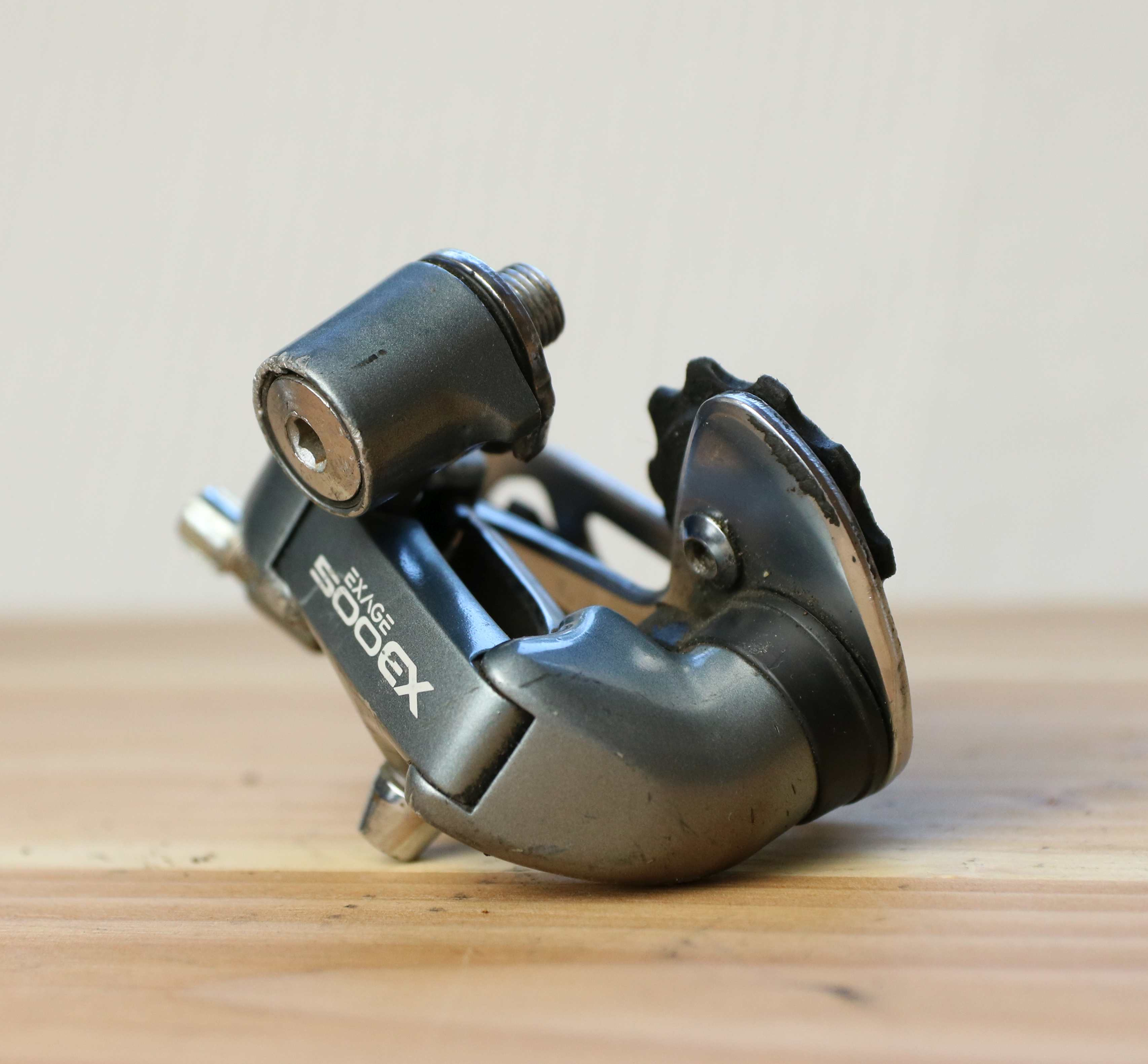 Shimano Exage 500 Derailleur